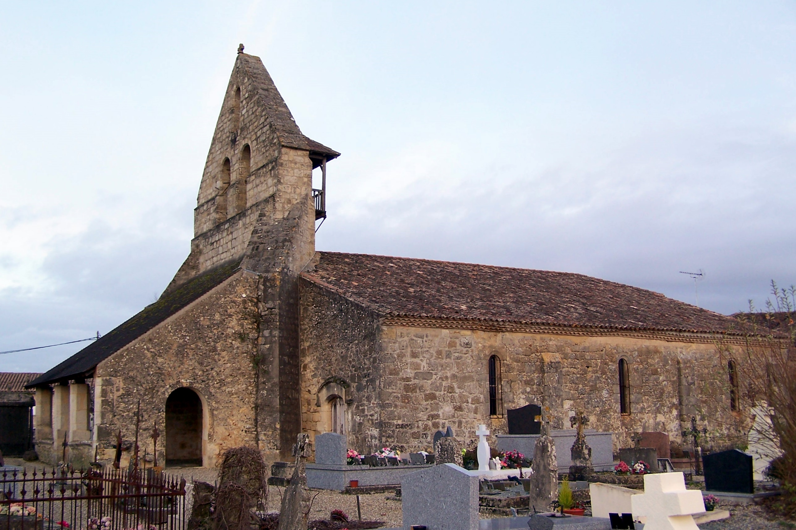 Church of Saint-Laurent-du-Bois (Gironde, France)